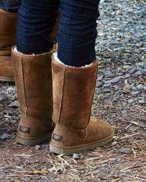 UGG Κλασσική μπότα από δέρμα προβάτου